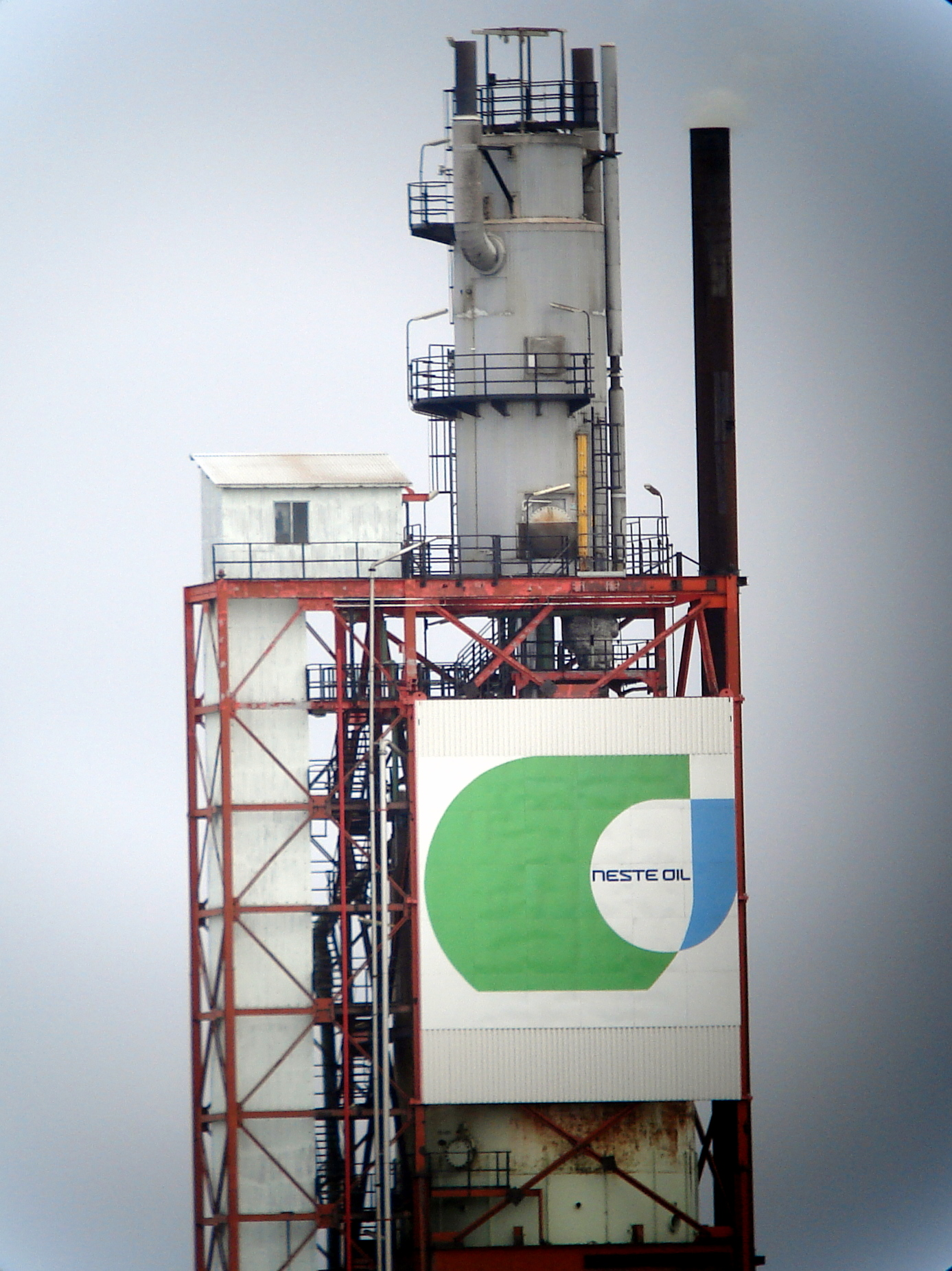 Neste Oil's Naantali refinery is located at Naantali in western Finland, close to Turku. Digiscoped with Swarovski ATS 80 HD + 20-60x zoom.